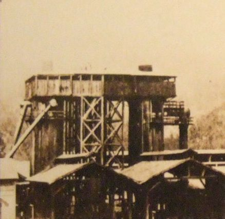 Tanaka iron works, Kamaishi mine